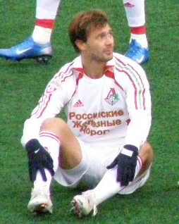 Dmitry Sychev in action for FC Lokomotiv Moscow